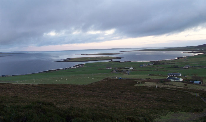 Cuween Hill (Orkney), view of Bay of Firth.